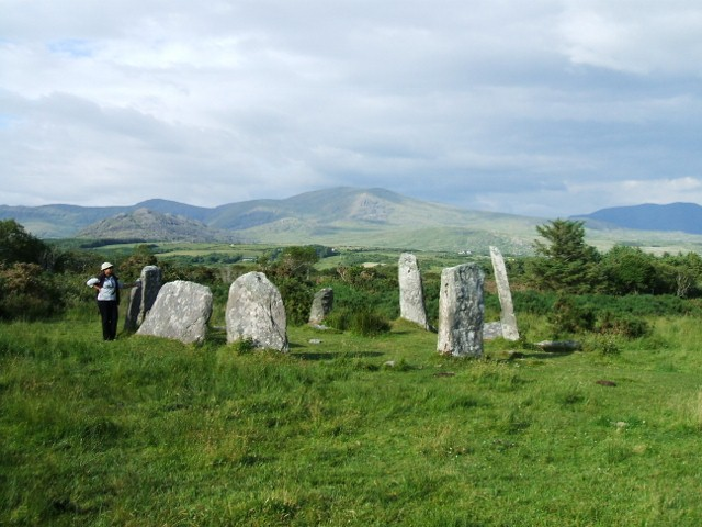 County Cork, Dereenataggart. Wikidata has entry Q30161058 with data related to this item.